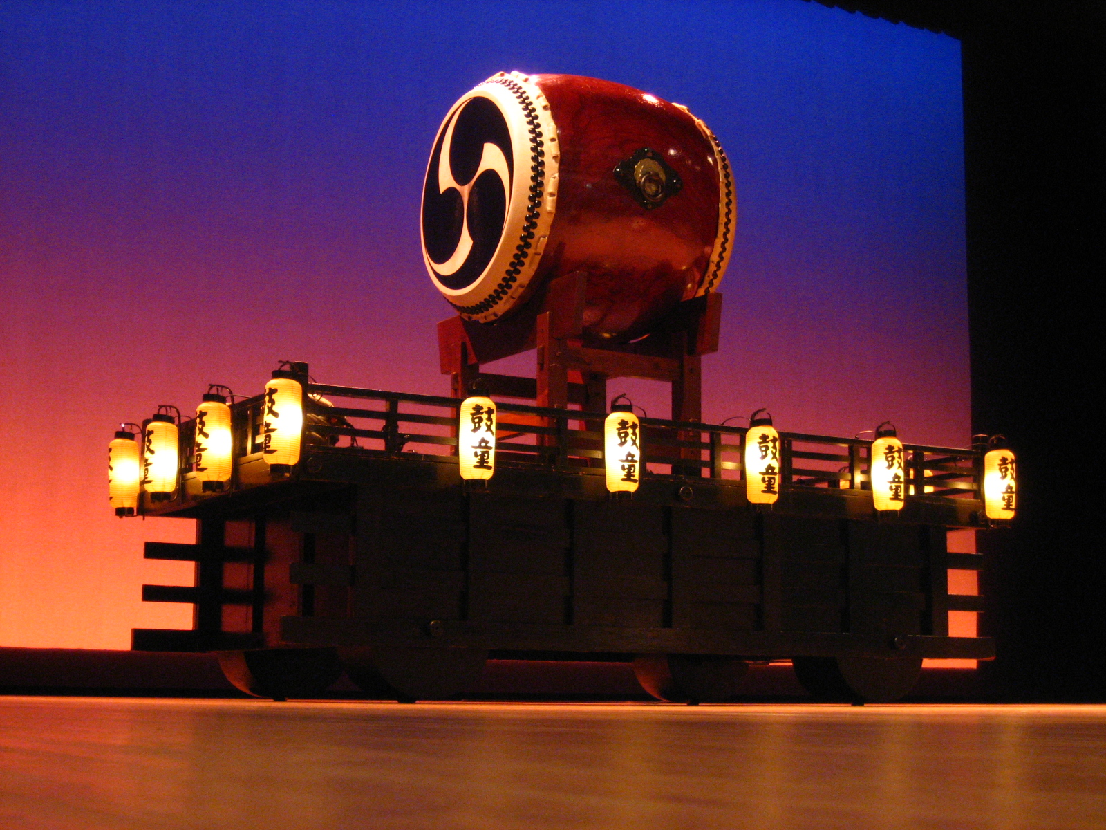 A picture of a taiko drum used by the taiko drumming group "Kodo". Picture was taken after a performance in Koriyama, Fukushima Prefecture, Japan with a Canon Power Shot SD450 Digital Elph camera and modified using a Paint Shop program on a laptop computer.